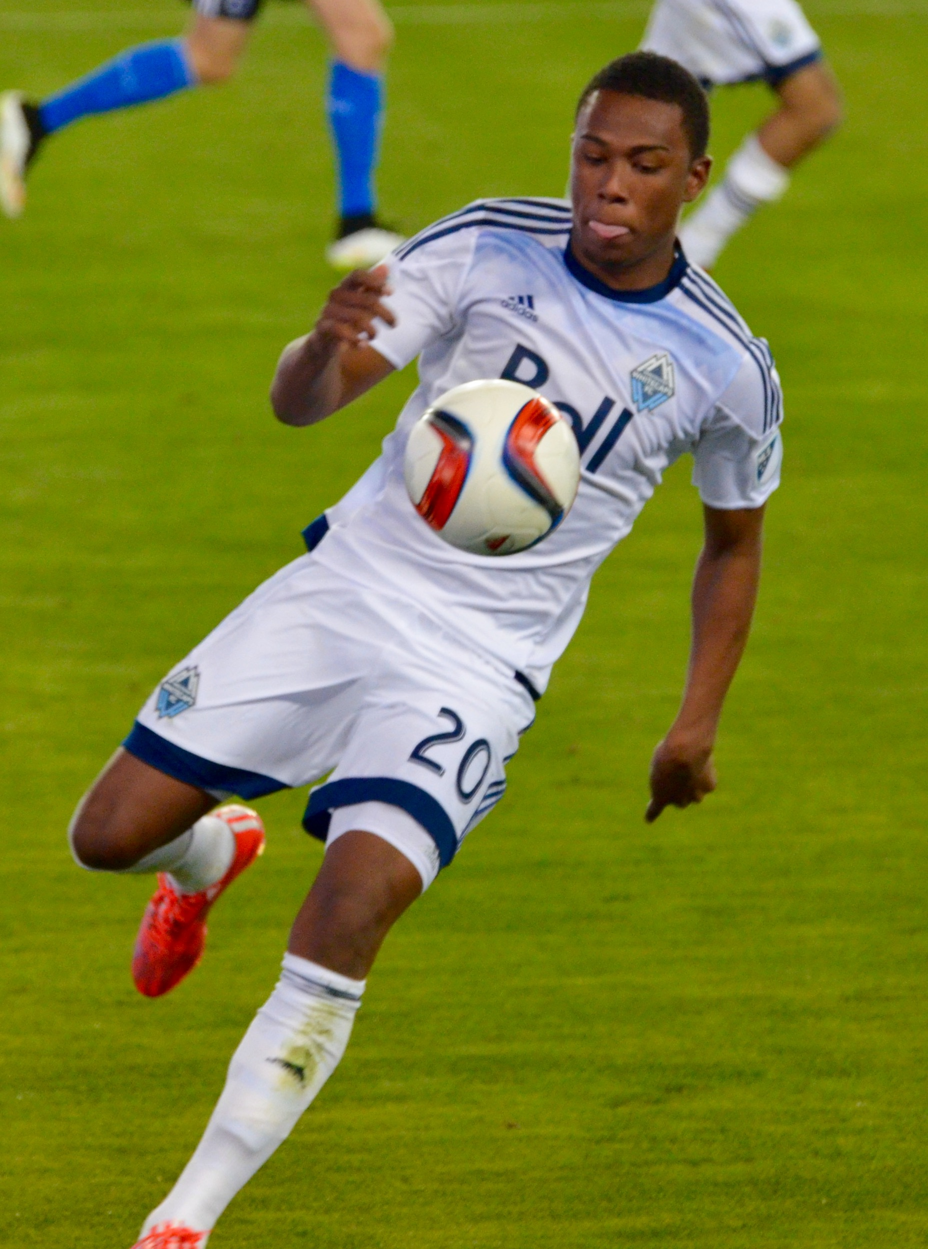 Deybi Flores playing for the Vancouver Whitecaps vs the San Jose Earthquakes at Avaya Stadium on 11 April 2015